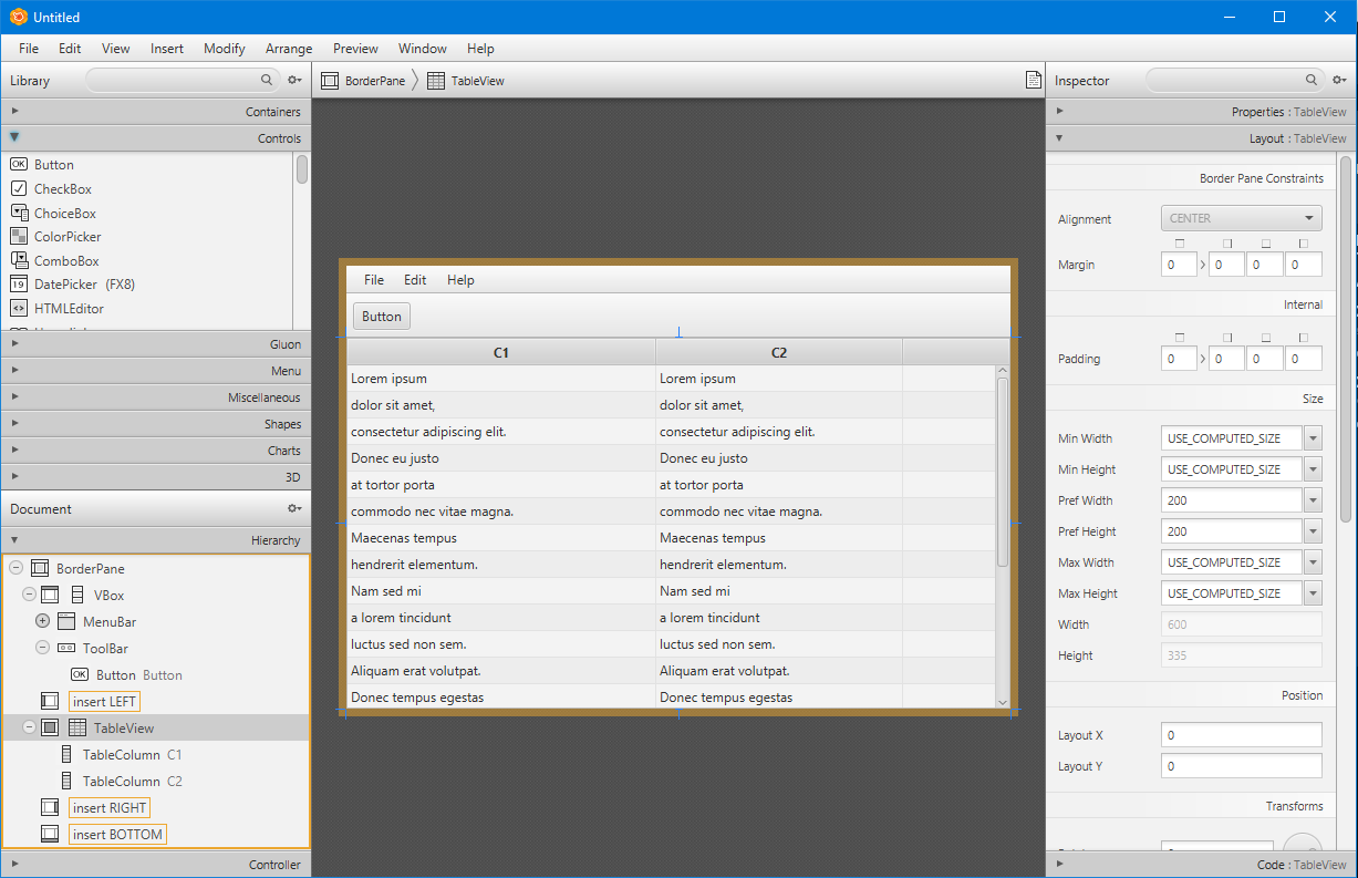 Screenshot that shows the software Scene Builder